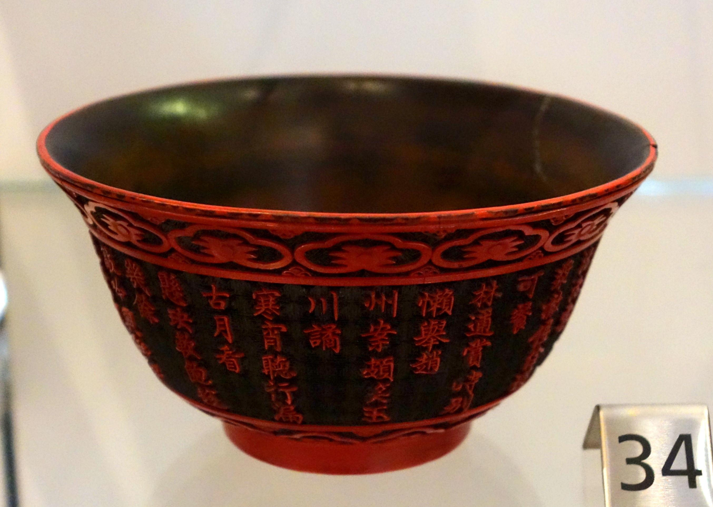 Exhibit in the Royal Ontario Museum, Toronto, Ontario, Canada. This work is old enough so that it is in the public domain.